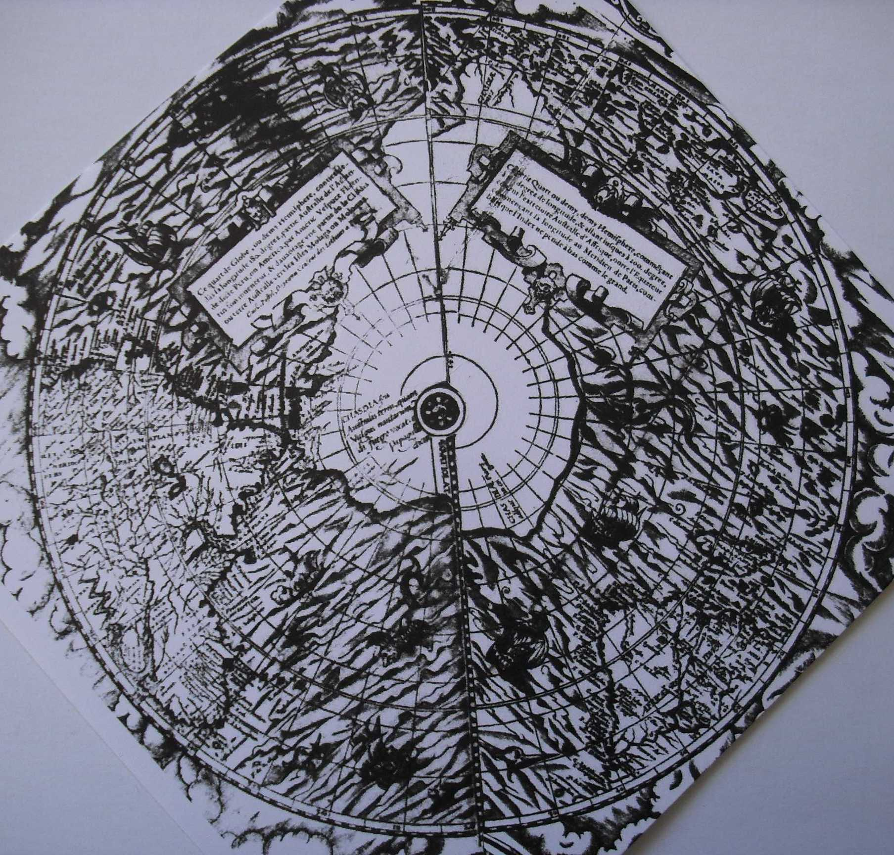 Reunion of the two halves of the southern hemisphere of Guillaume Postel's world map Polo aptata Nova Charta Universi, 1578 (edition of 1621).